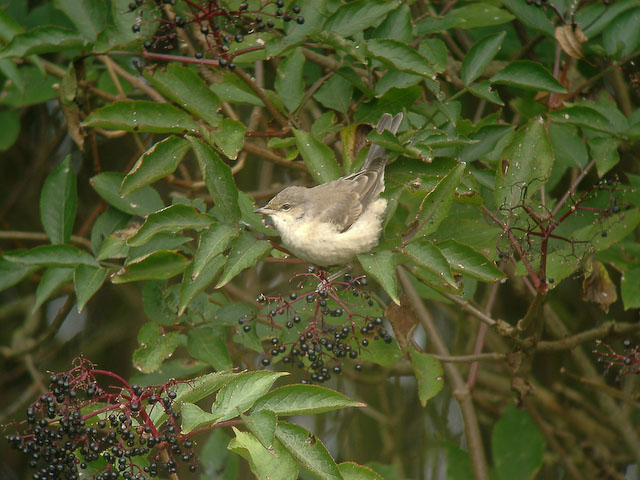 Barred Warbler (Sylvia nisoria), Kilnsea, East Riding of Yorkshire, England. A scarce migrant on the east coast with young birds dispersing west from eastern Europe before migrating to east Africa.